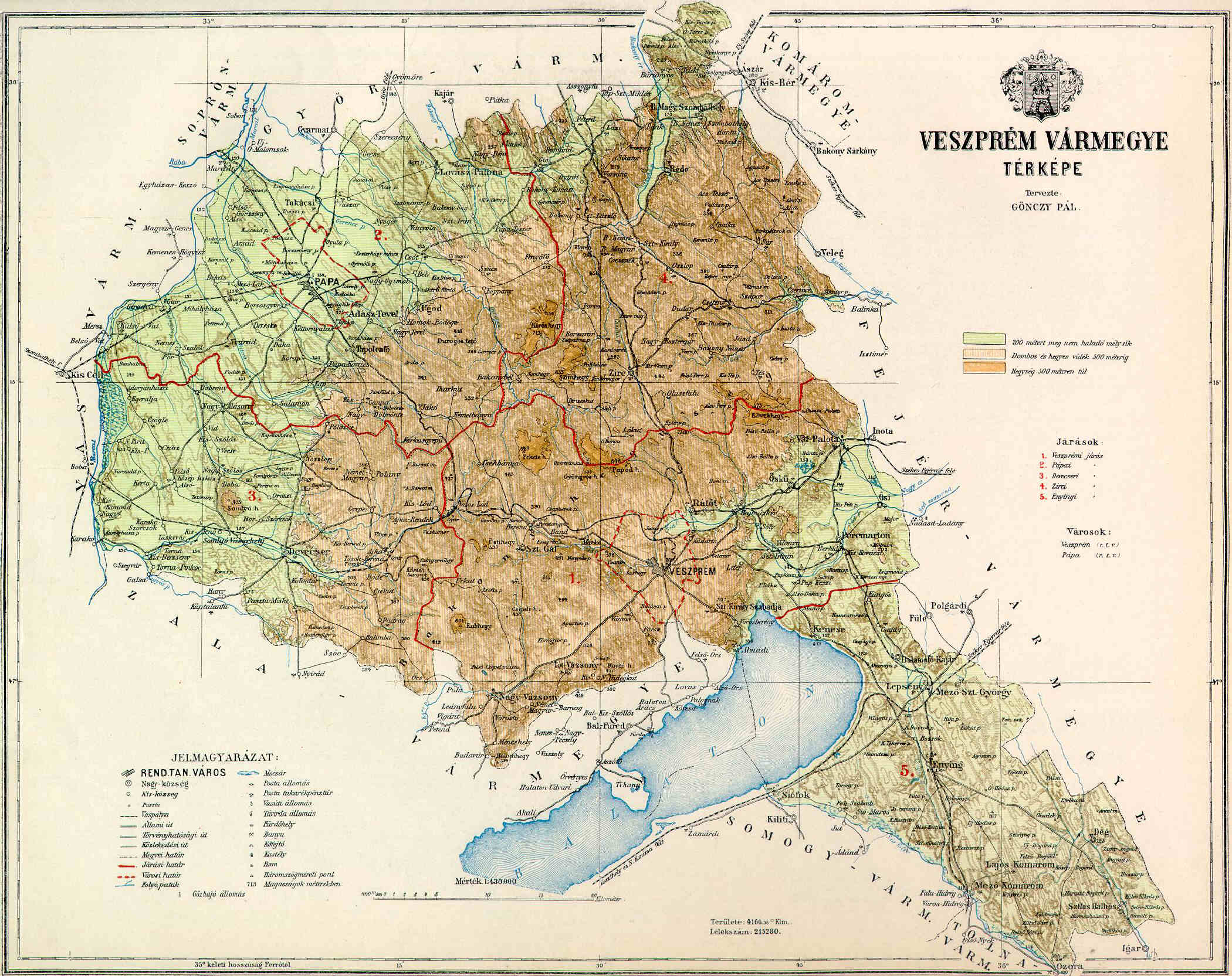 County of Veszprém in the pre-Trianon Kingdom of Hungary. Komitat Veszprém w Królestwie Węgier przed traktatem w Trianon.